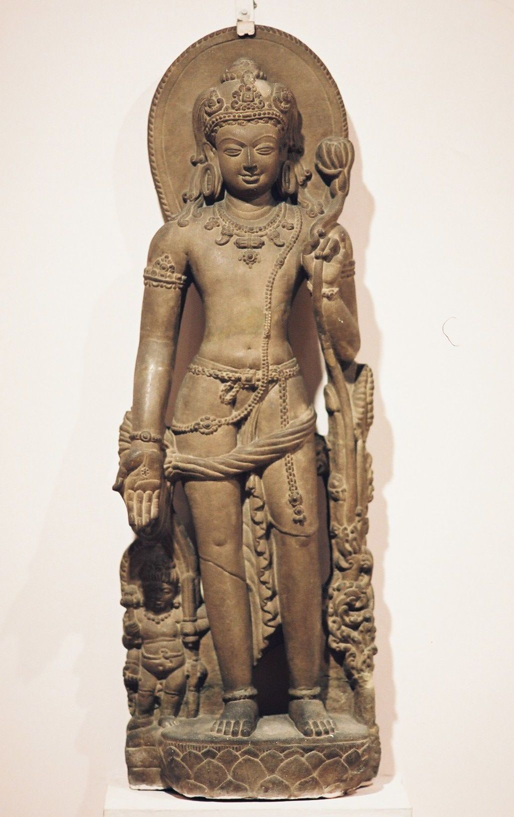 Country: India. Site Name: Nalanda. Monument: sculpture of Khasarpana Lokesvara. Iconography: Khasarpana. Gestures: padma (lotus), varada mudra (gift-bestowing gesture). Dynasty/Period: Pala. Date: ca. ninth century CE, 801 CE - 900 CE. Material: stone. Dimensions: H - ca. 42.00 in W - ca. 15.00 in. Current Location: National Museum, New Delhi, India. description from Huntington Archive